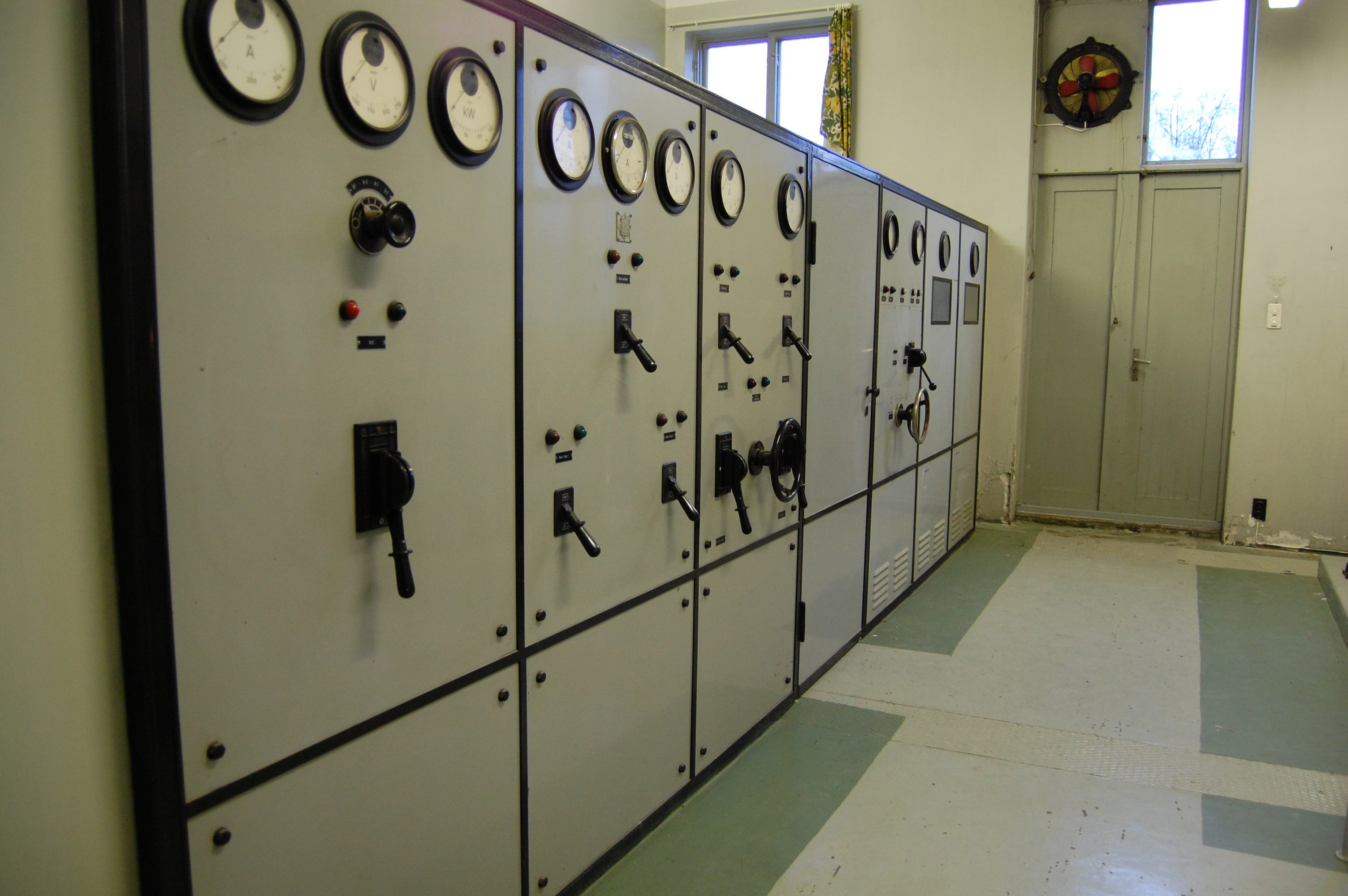 Telefunken transmitter, high voltage intake, at Bergen kringkaster, Askøy, Norway